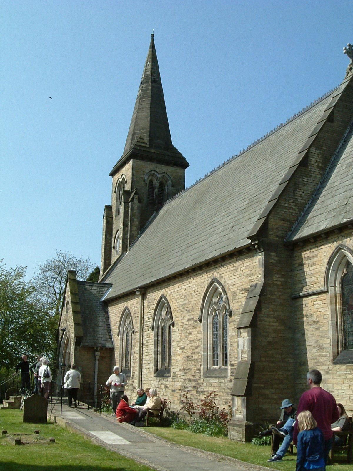 Strensall, St Mary's church Taken by James@Hopgrove, 23rd April 2005